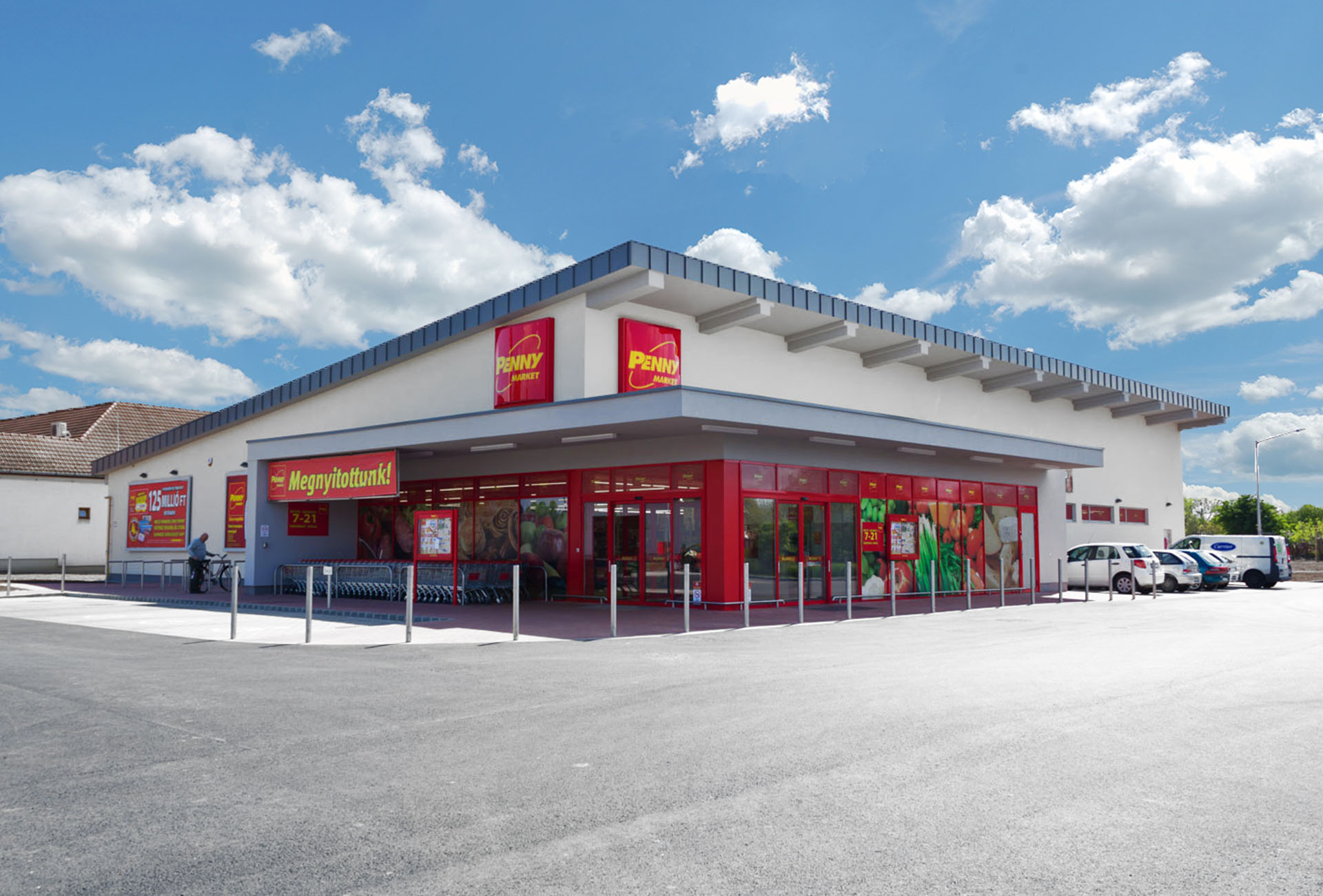 Penny Market logo